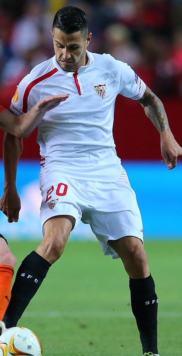 EFA Europa League 2015/16. Semi-finals. Return leg. May 5, 2016. Spain. Seville. Ramon Sanchez Pizjuan. 17 oC. Att: 41,269. Sevilla, Spain 3-1 (1-1) Shakhtar Donetsk, Ukraine Goals: 1-0 Gameiro (9), 1-1 Eduardo (44), 2-1 Gameiro (47), 3-1 Mariano Ferreira (59) Sevilla: Soria, Tremoulinas (Escudero, 74), Rami, Krychowiak, Carriço, Gameiro (Iborra, 82), N'Zonzi, Banega (Cristoforo, 89), Vitolo, Coke (c), Mariano Ferreira Unused subs: Rico, Pareja, Konoplyanka, Llorente Head coach: Unai Emery Shakhtar: Pyatov, Srna (c), Kucher, Rakits’kyy, Ismaily, Stepanenko, Malyshev, Kovalenko, Taison (Bernard, 76), Marlos (Nem, 84), Eduardo (Dentinho, 84) Unused subs: Kanibolotskyi, Kobin, Ordets, Facundo Ferreyra Head coach: Mircea Lucescu Booked: Marlos (11), Rakits’kyy (14) Kucher (20), Banega (30), Srna (48), Eduardo (61), Stepanenko (76), Vitolo (87), Ismaily (90) Referee: Bjorn Kuipers (Netherlands)